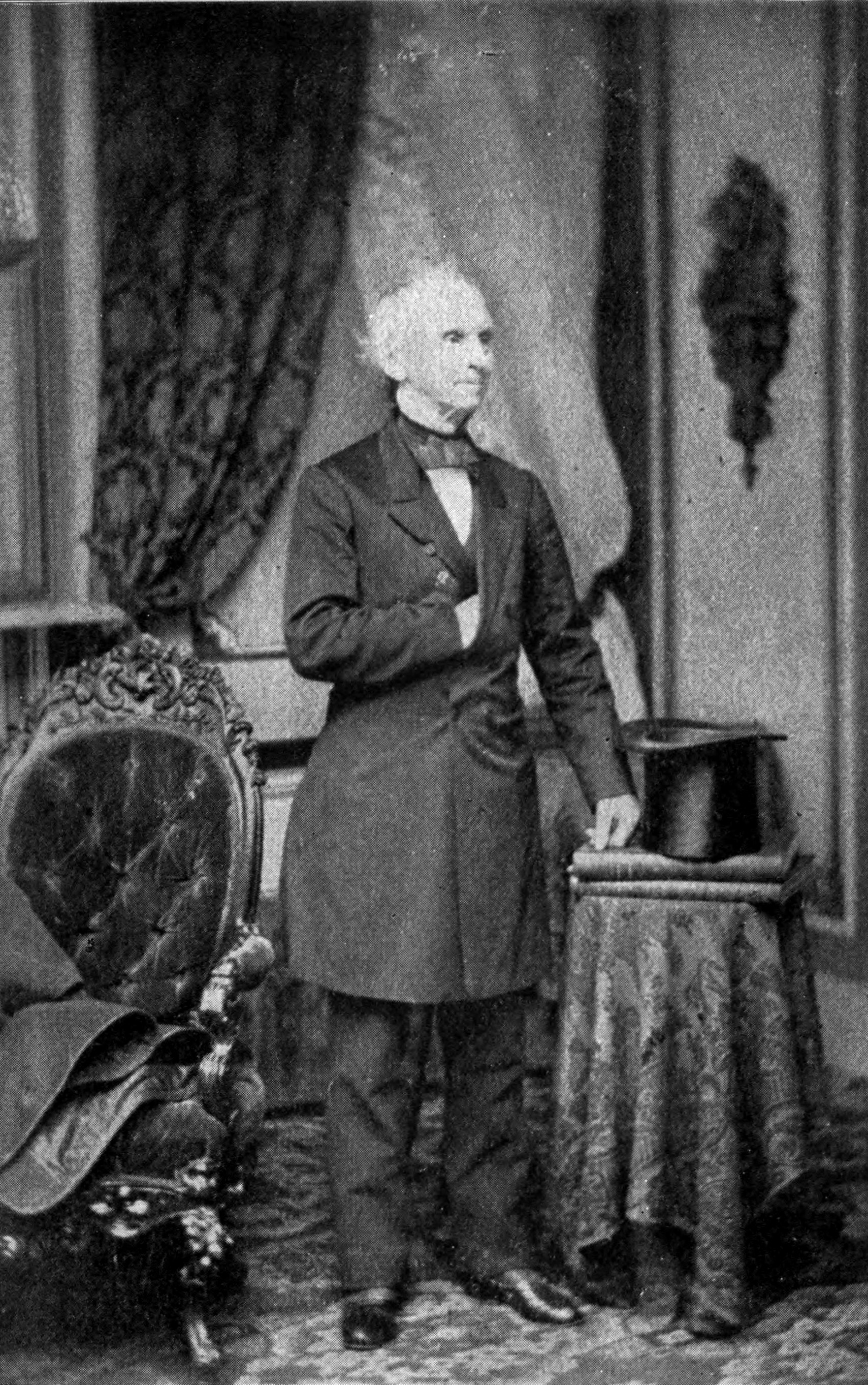 Portrait photograph of United States librarian, bibliographer and educator Joseph Green Cogswell around 1870.